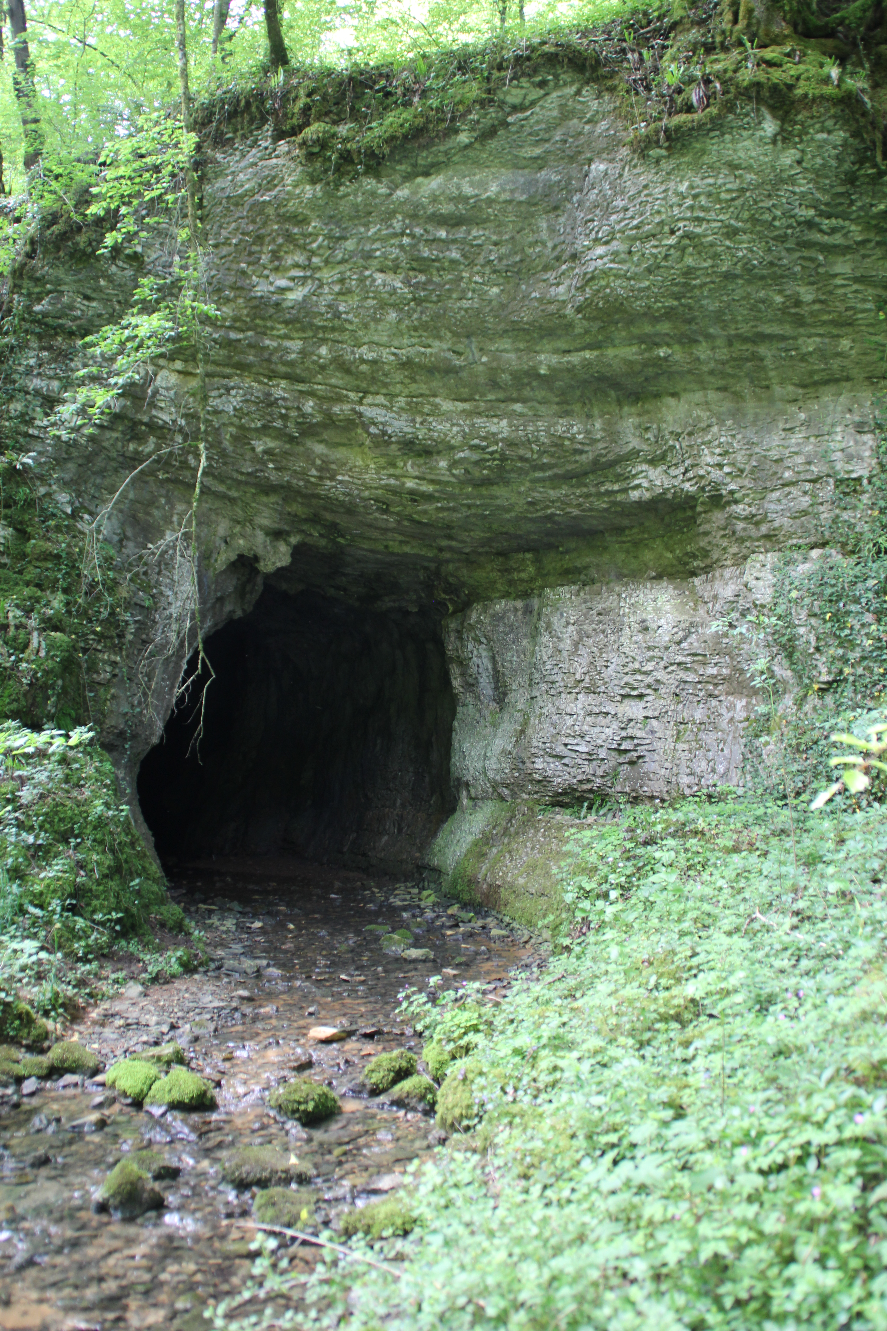 Source de la Beune near Rougemontot, France